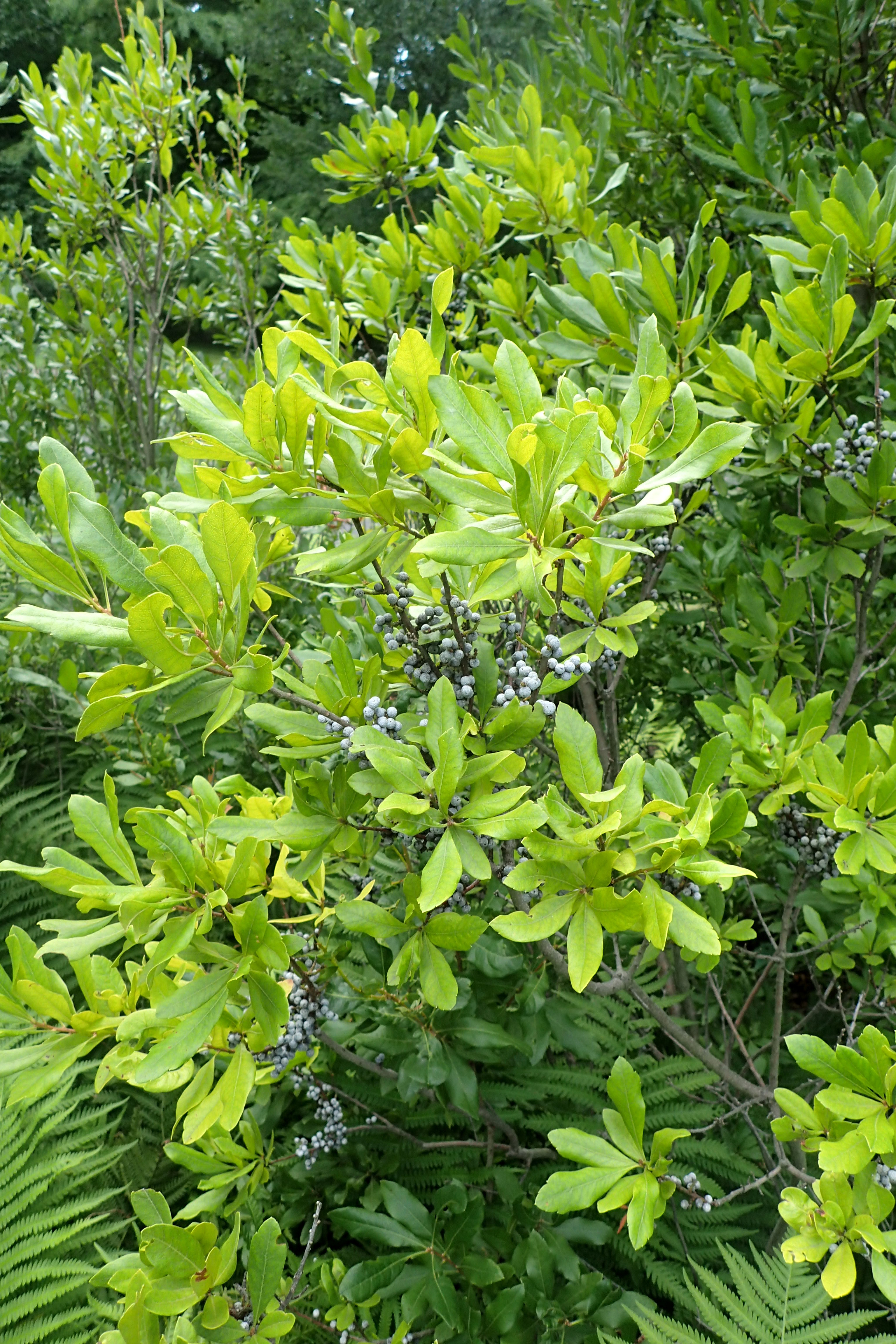 Morella pensylvanica at the New York Botanical Garden